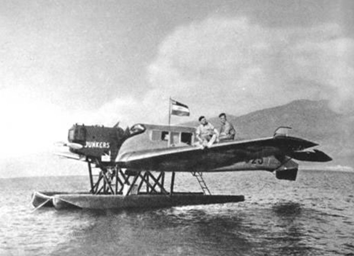 Atlantis seaplane about to leave Kupang after refueling